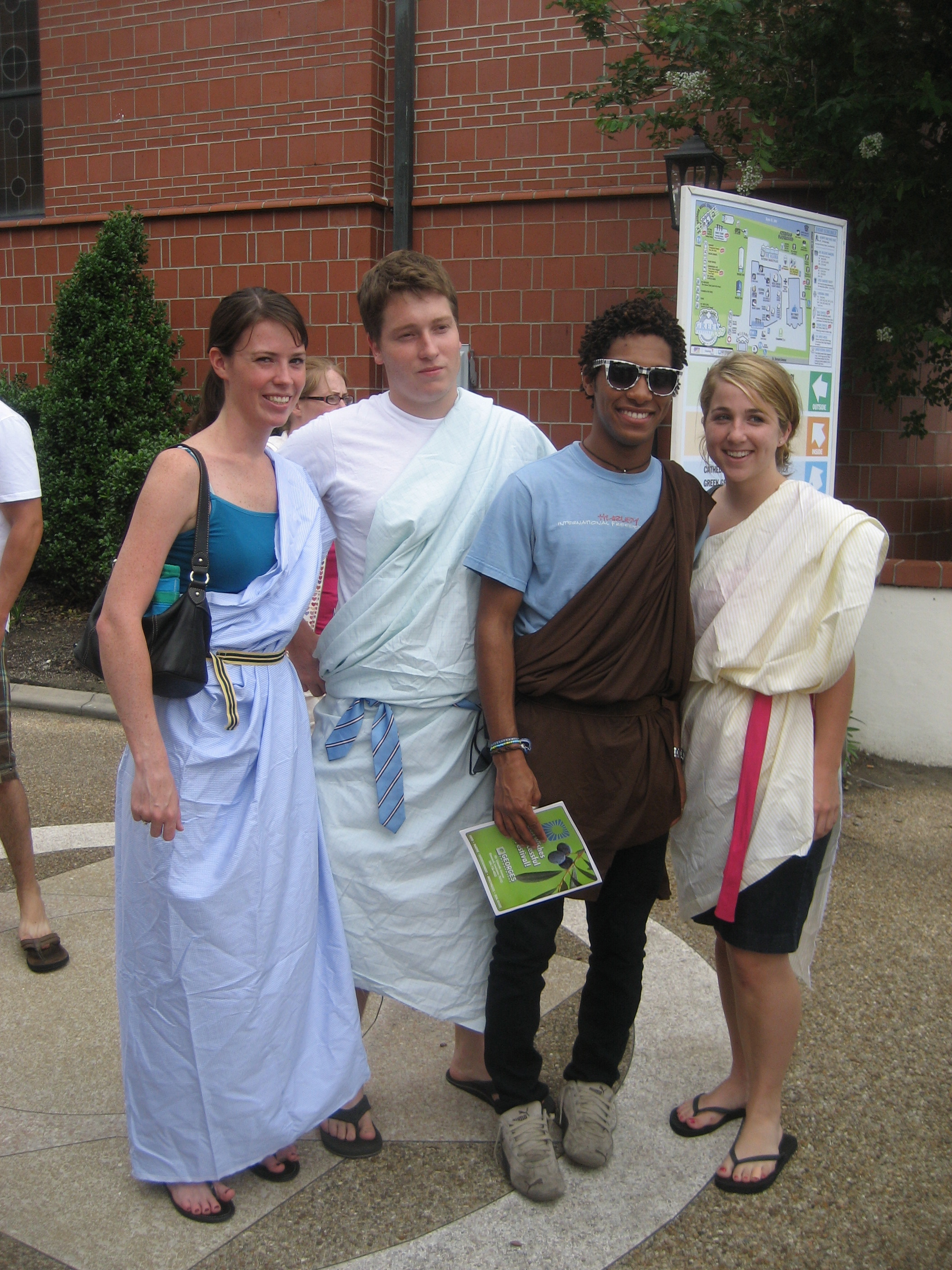 New Orleans: Greek Fest 2009 at the Hellenic Cultural Center. Attendees who took advantage of the day's promotional deal of free admission for anyone wearing a toga.